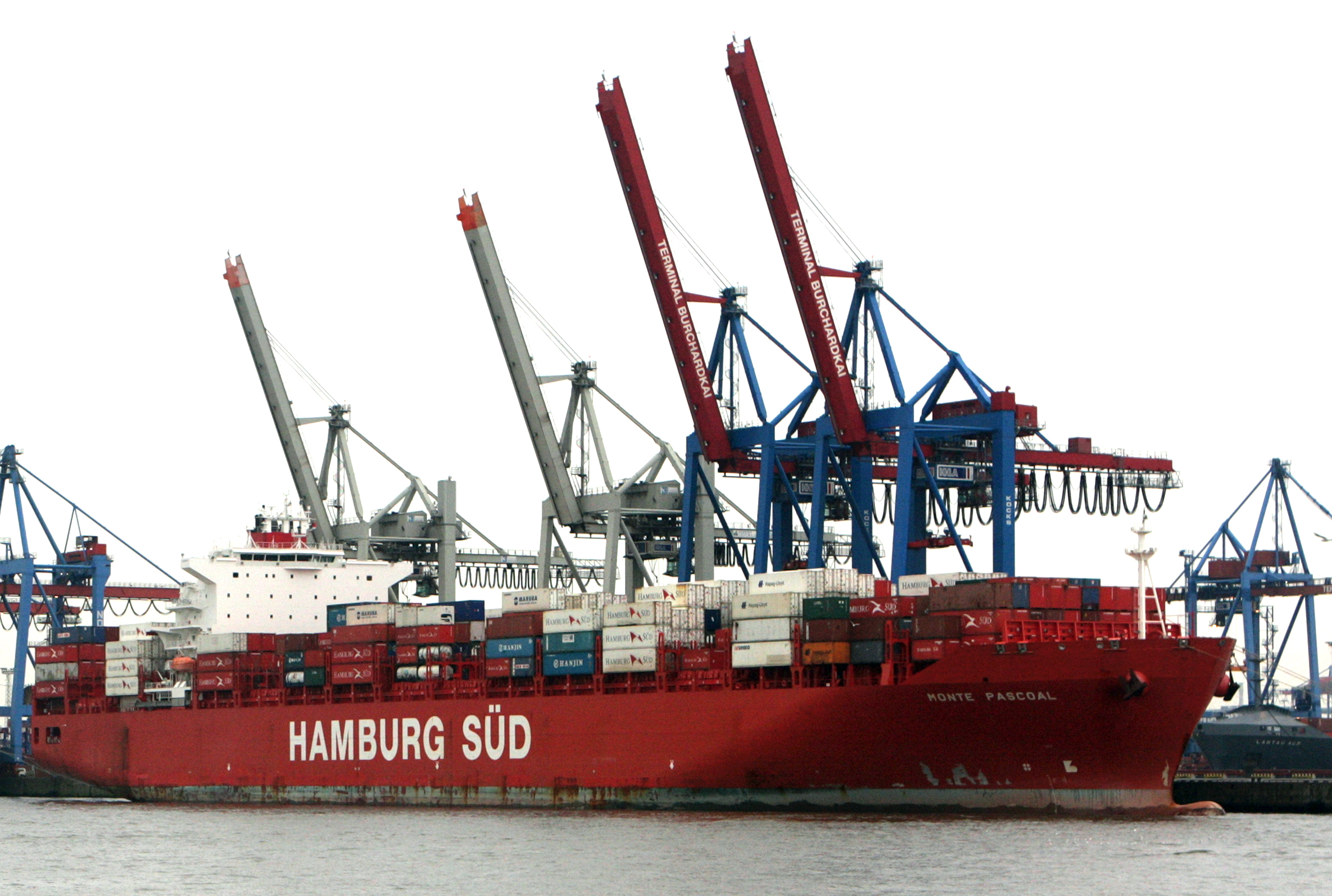 Container ships Monte Pascoal, Container Terminal Burchardkai, Hamburg